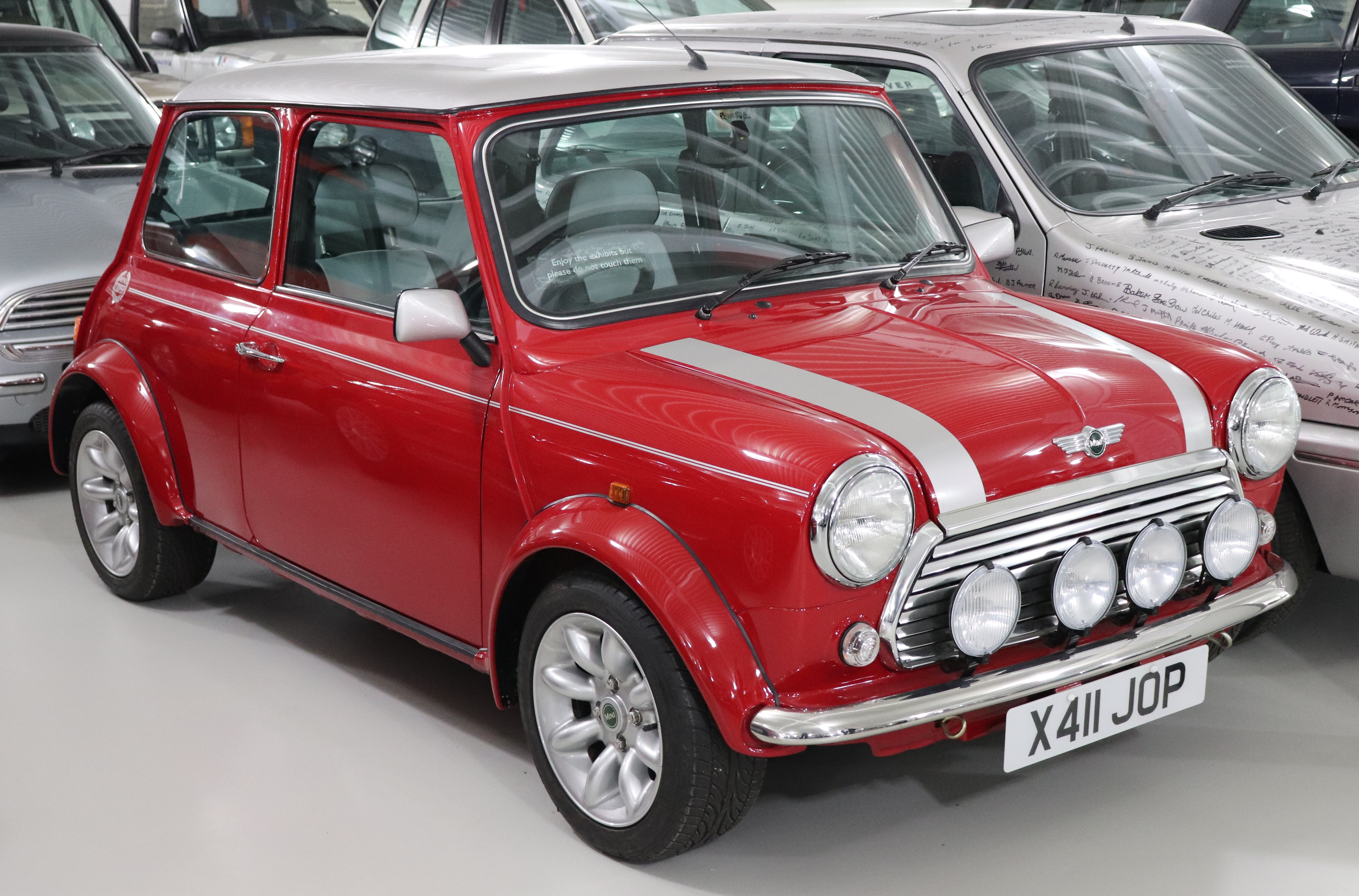 2000 Mini Cooper (X411 JOP) 1.3 Taken at the British Motor Museum, Gaydon